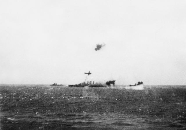 Joint Australian-United States naval Task Group 17.3 under air torpedo attack by Imperial Japanese Navy land-based bombers during the Battle of the Coral Sea on 7 May 1942. A Japanese Mitsubishi G4M Type 1 bomber flies past the cruiser HMAS Australia (D84). The smoke astern of the cruiser marks where another Japanese bomber has been shot down. The U.S. Navy destroyer USS Perkins (DD-377) is visible beyond the Australia.